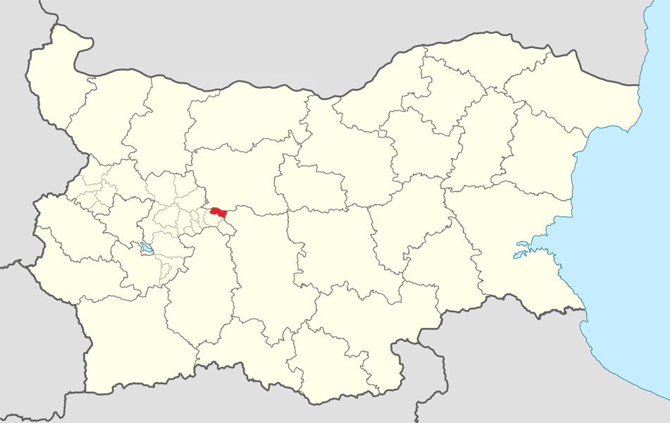 Location map of Anton Municipality within Bulgaria and Sofia province